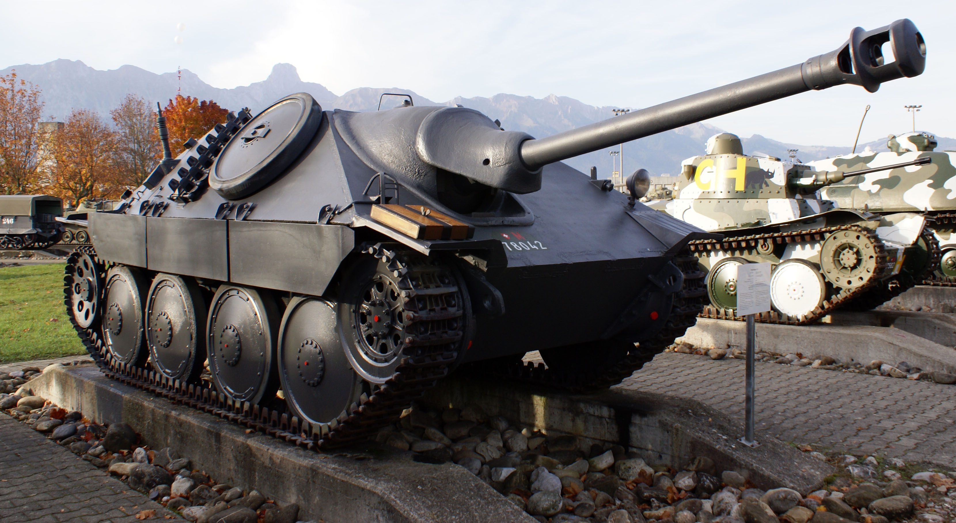 Swiss Army. Tank destroyer G 13, imported 1946-7, originally German Wehrmacht Jagdpanzer 38(t) "Hetzer". Tank Museum Thun.